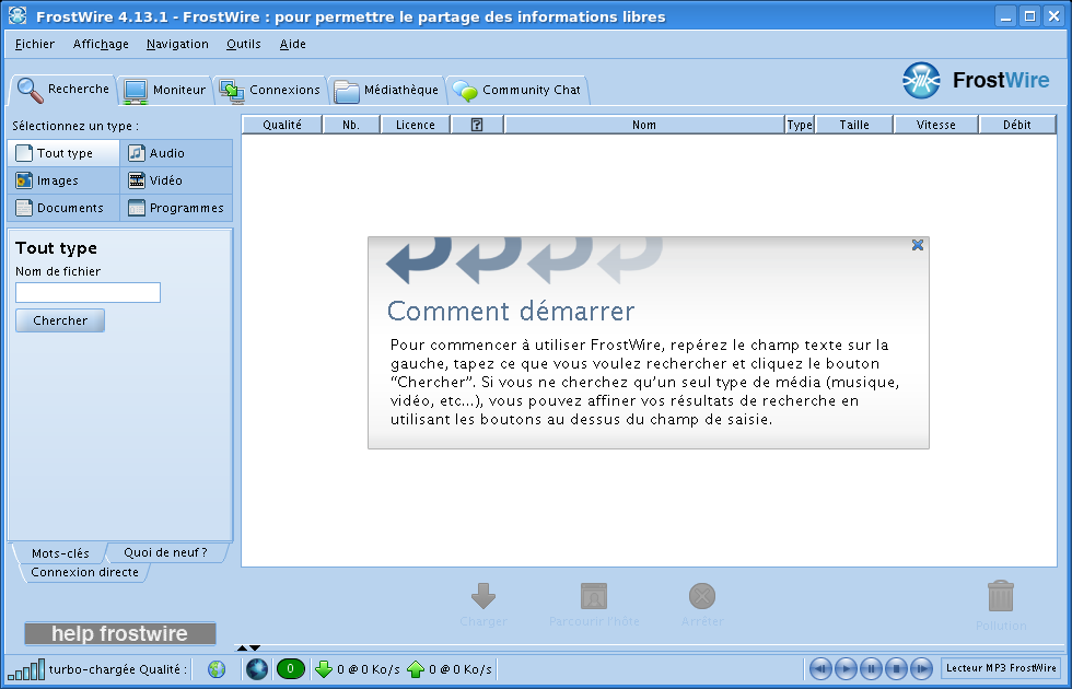 Frostwire on Linux